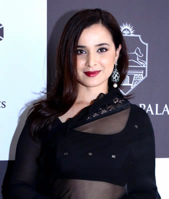 Simone Singh at the unveiling of coffee table book on Rambagh Palace, Jaipur